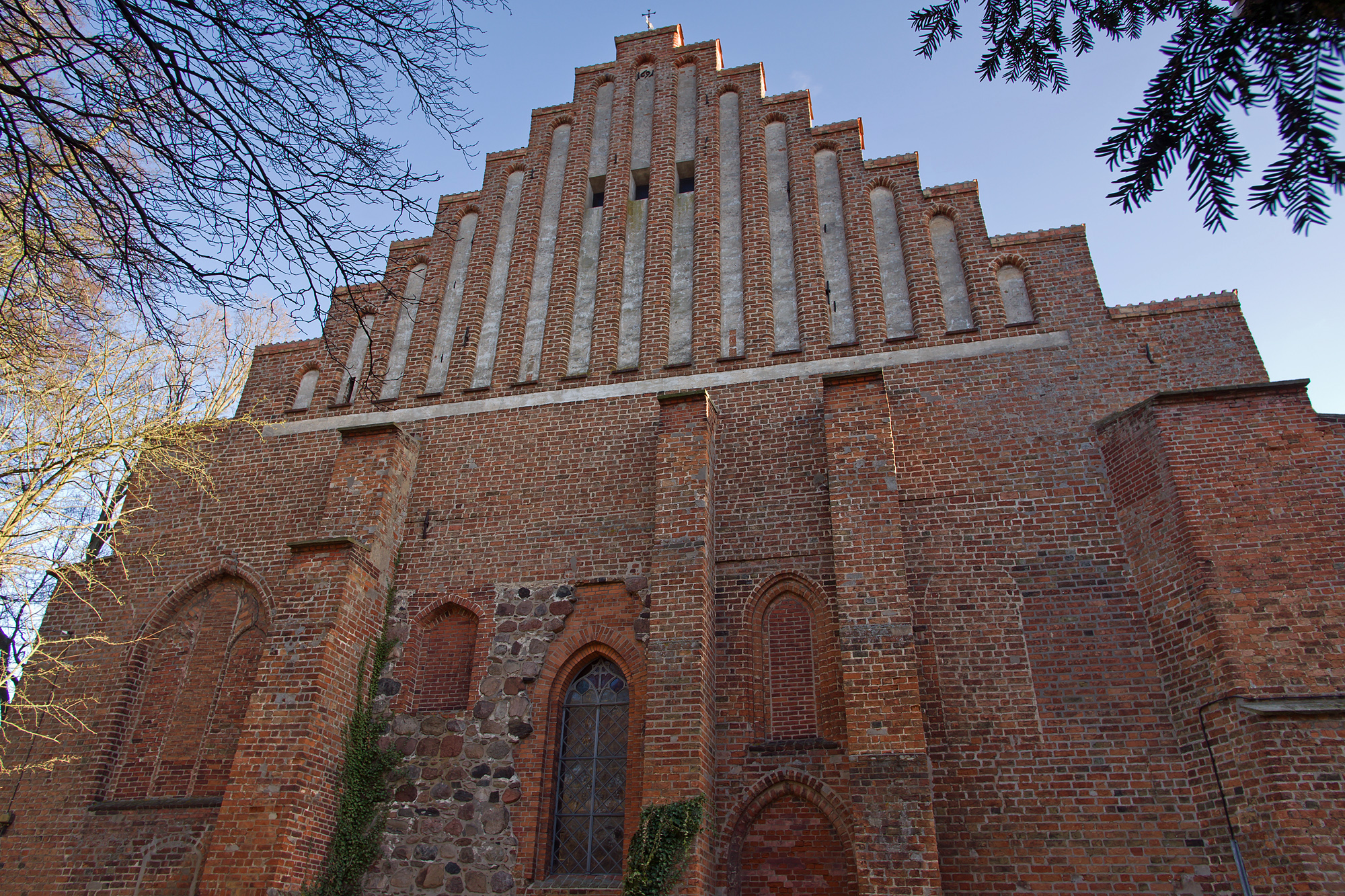 Church of the small town Lüchow (district Lüchow-Dannenberg, northern Germany).